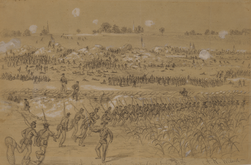 Figure in lower left has oversized shoes.